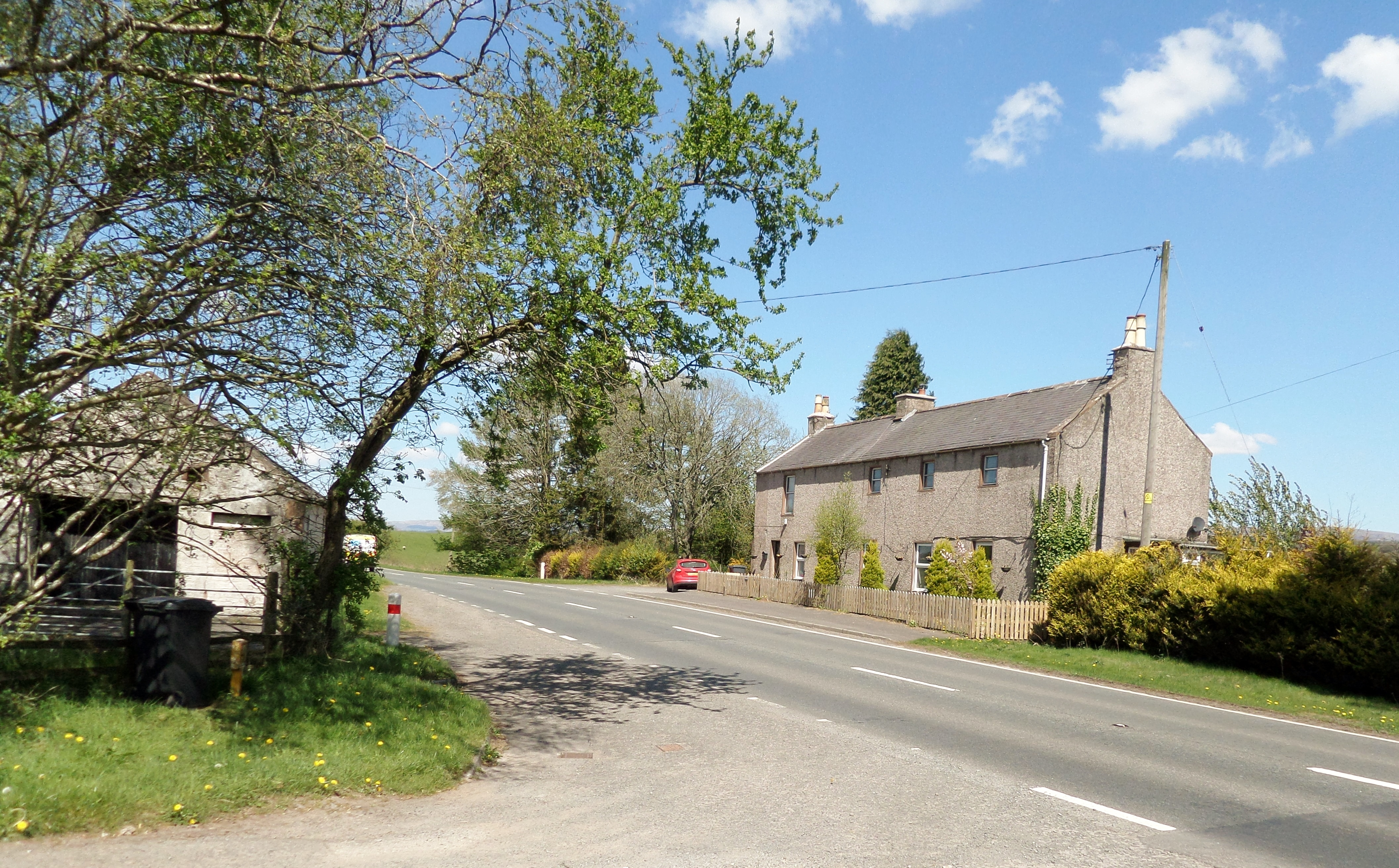 Brownhill Inn, Closeburn - view of the old inn site and the stables, etc to the left. A favourite haunt of the poet Robert Burns.